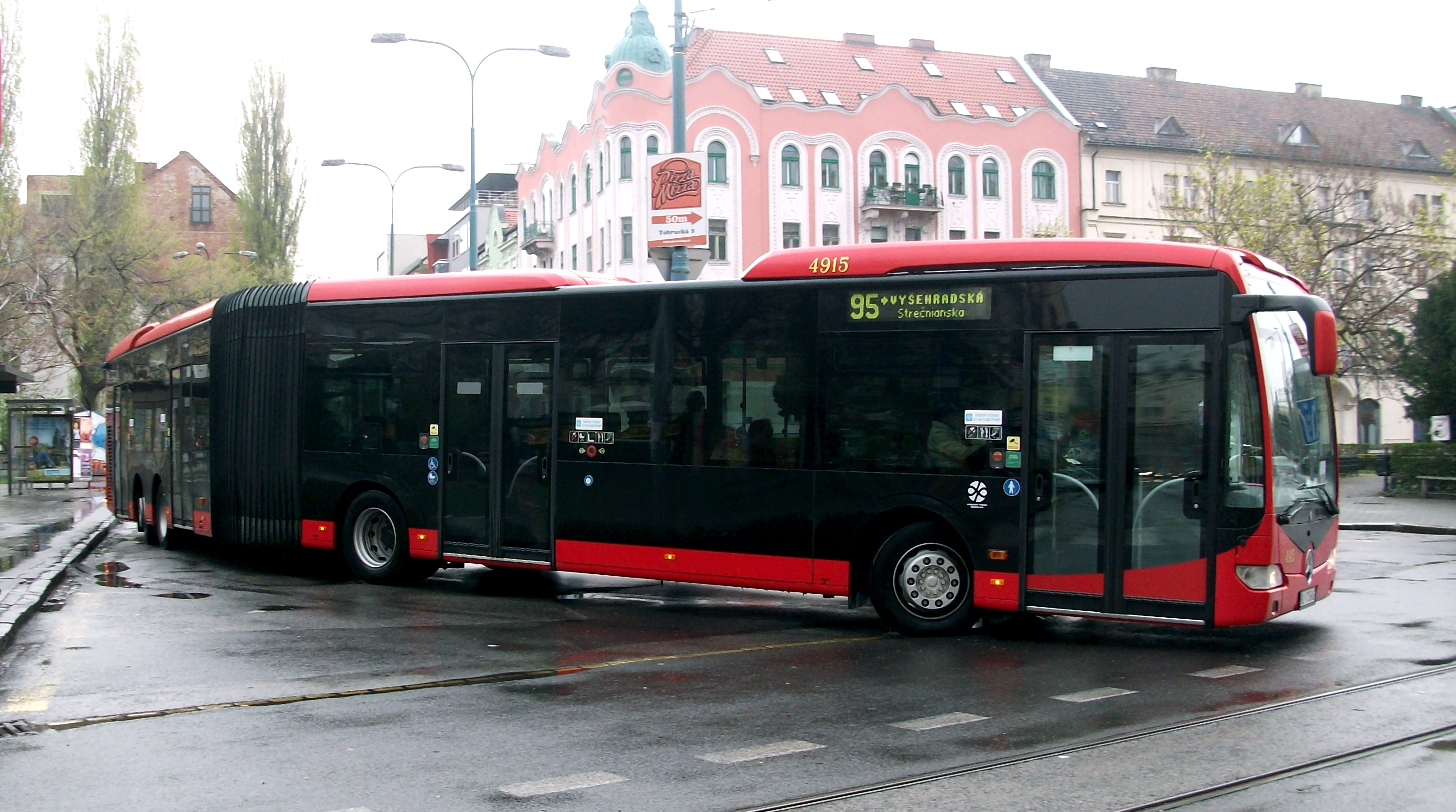 Mercedes-Benz CapaCity, Bratislava